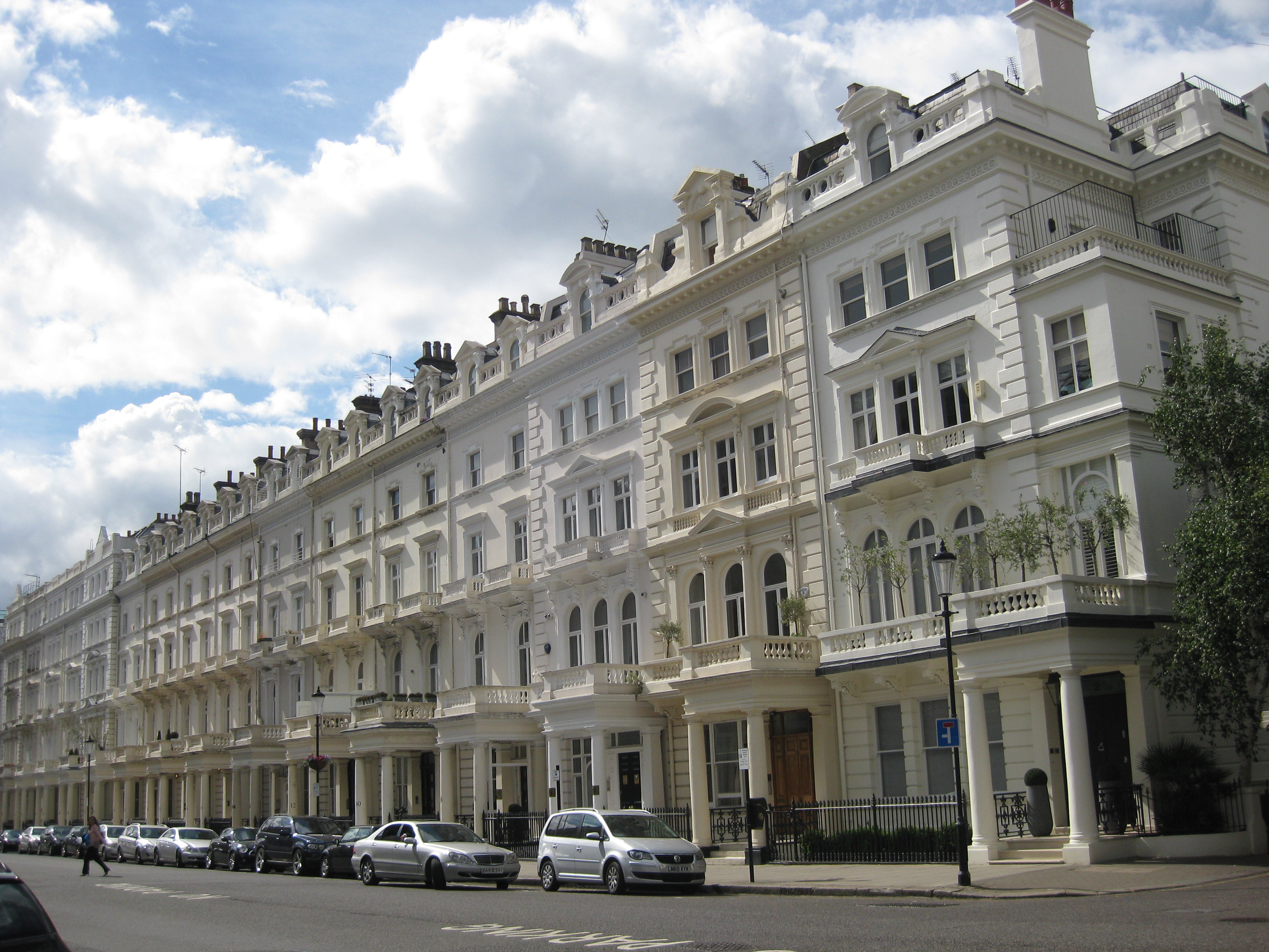 Queen's Gate Terrace (even numbers), Kensington, London SW7